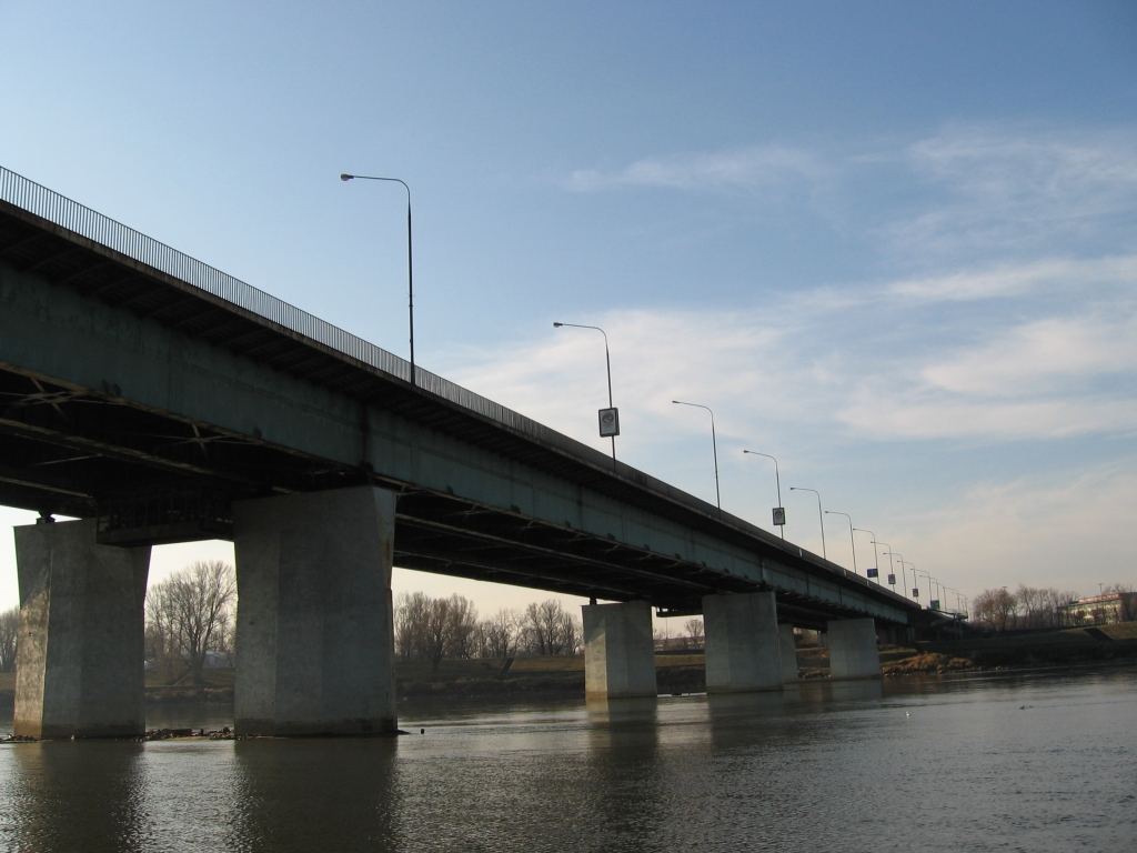 Lazienkowski bridge, Warsaw, Poland